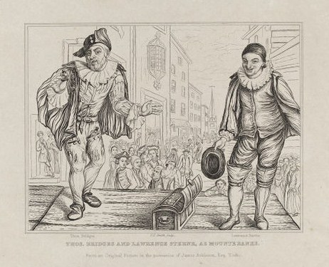 Double portrait of Thomas Bridges and Laurence Sterne, engraved after an original owned by James Atkinson. Published in Bibliographical, Antiquarian, and Picturesque Tour in the North Counties of England and Scotland (1838) by Thomas Frognall Dibdin. Bridges and Sterne are shown in costume, as mountebanks.